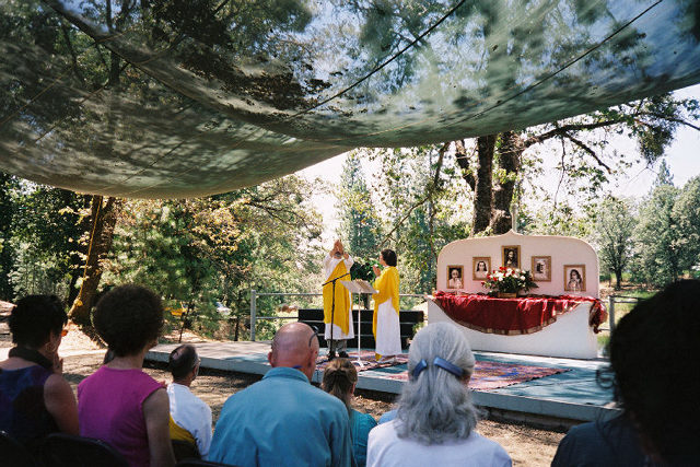 Sunday religious service at a World Brotherhood Colony, Ananda Village near Nevada City, CA, USA